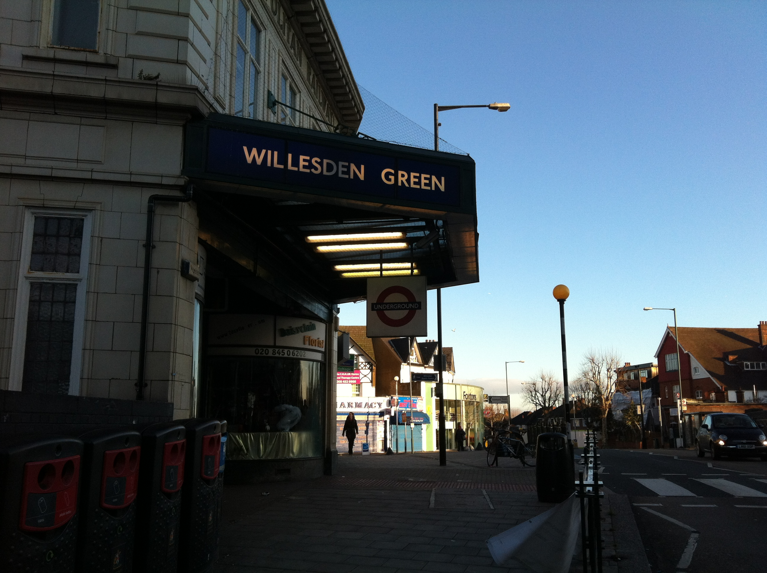 Willesden Green Tube Station January 2012